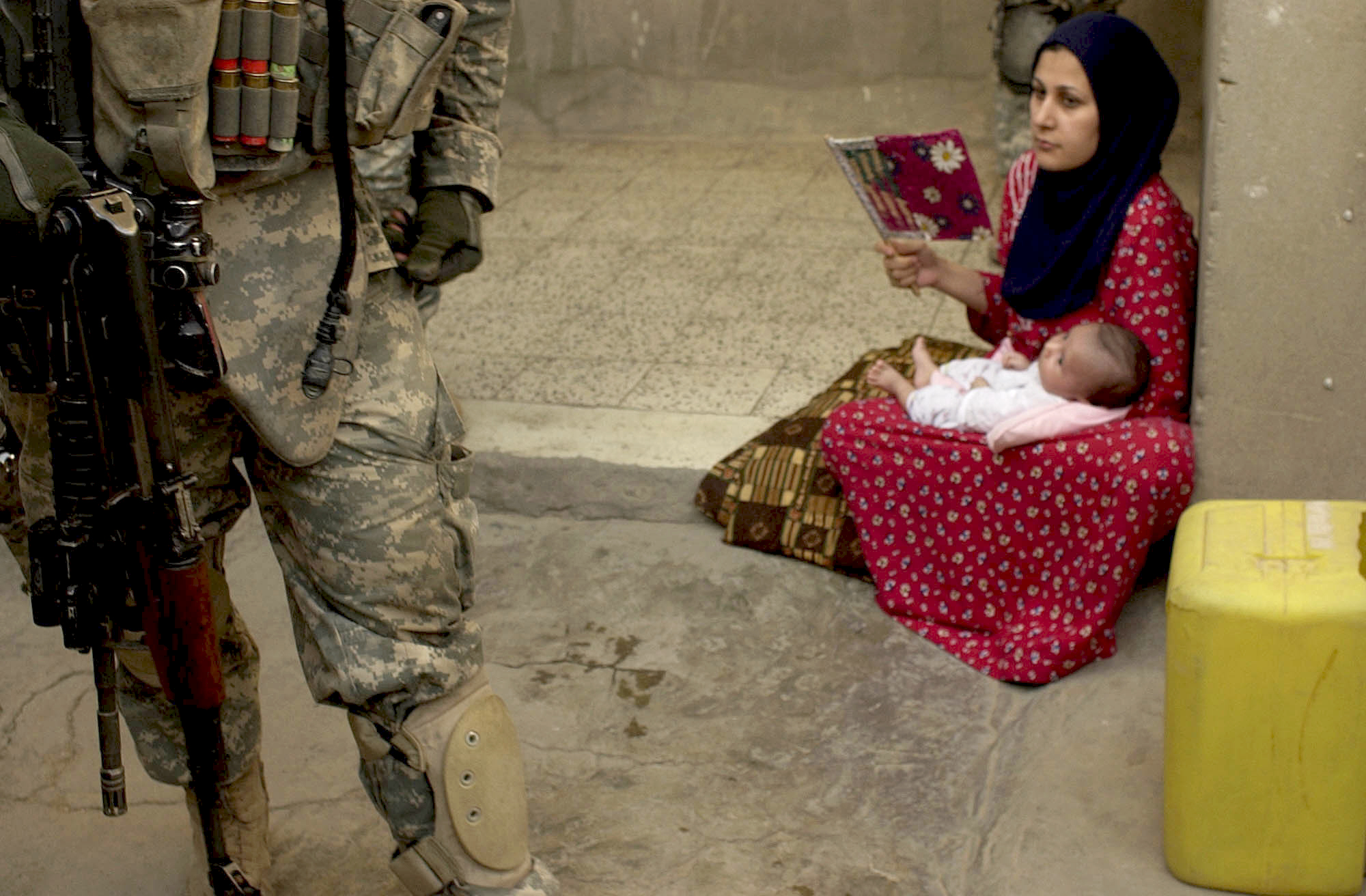 An Iraqi woman looks on as U.S. Army Soldiers from 1st Battalion, 23rd Infantry Regiment, 3rd Stryker Brigade Combat Team search the courtyard of her house during a cordon and search in Ameriyah, Iraq.